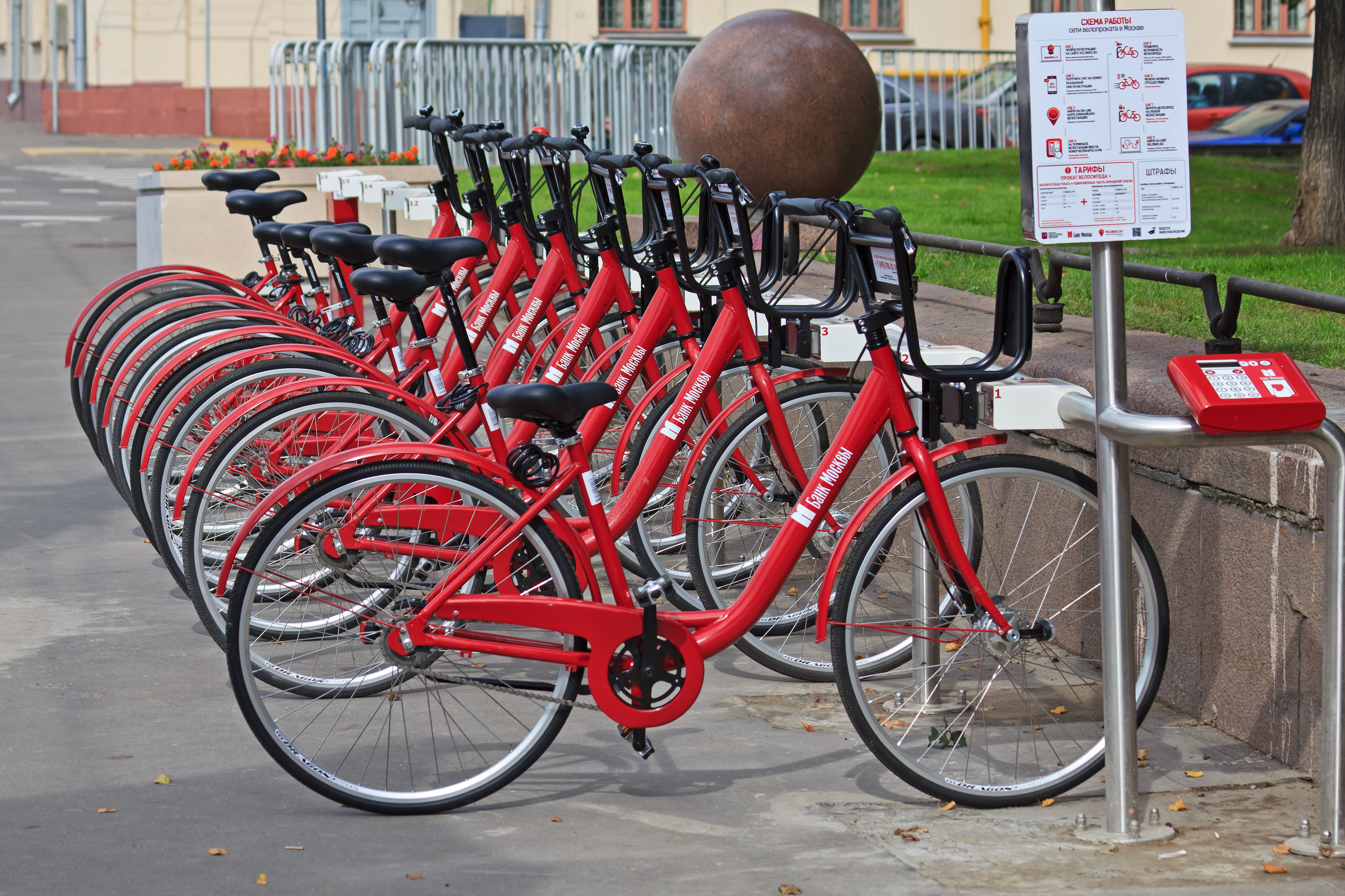 Moscow, Russia. Rental bikes (1st generation) of the bike-sharing system VeloBike at Serafimovicha Street.